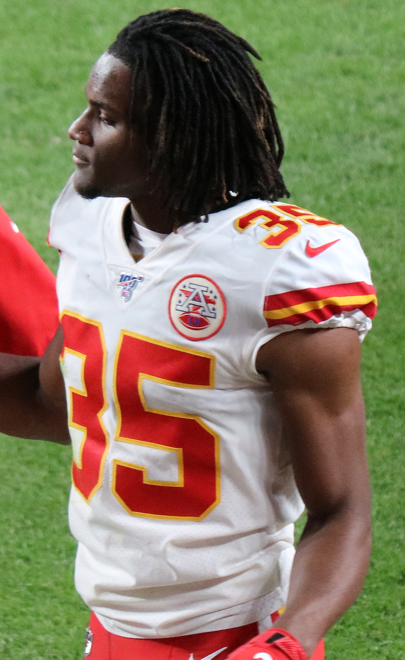 Charvarius Ward, a National Football League player.